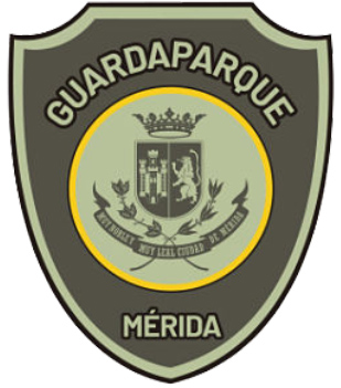 Seal of the Merida Municipal Park Rangers (state of Yucatan)